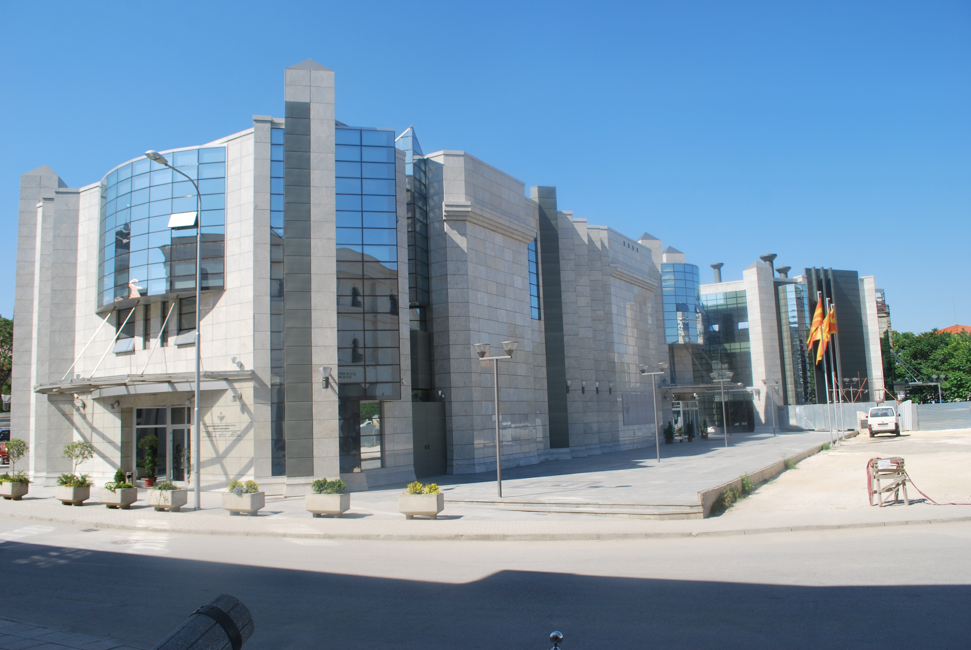 Skopje, Macedonia